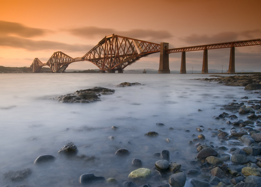 Forth Rail Bridge seen in the evening from the shore of South Queensferry. Long Exposure Shot (13 Seconds) taken with a Nikon D40X